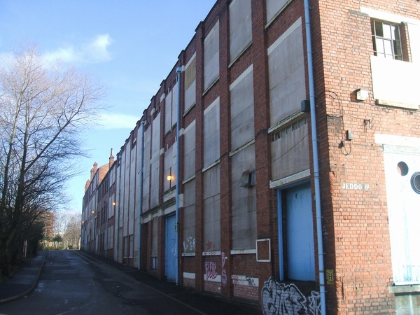 Sunbeamland on Paul Street In Victorian times the Sunbeam Company started in the enamel and Japanning trades before moving into bicycles, motorcycles and cars. These large premises have been boarded up for many years. The Marston family who owned the business were mayors and prominent citizens.